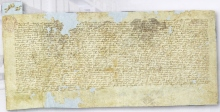 Conclusions of Croatian parliament from 1273